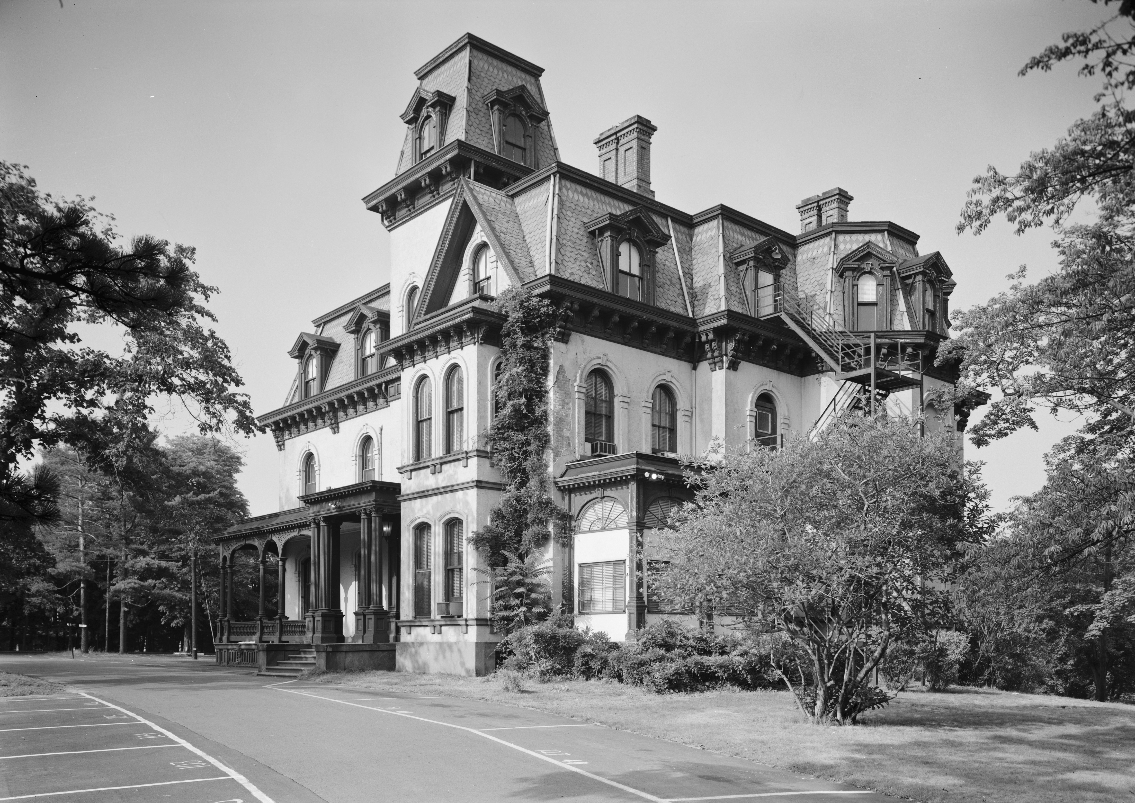 1. Historic American Buildings Survey Ned Goode, Photographer July 1964 EXTERIOR, FROM THE NORTHWEST - John M. Davies House, 393 Prospect Street, New Haven, New Haven County, CT